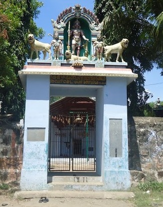 virasettai masi periyasay kovil